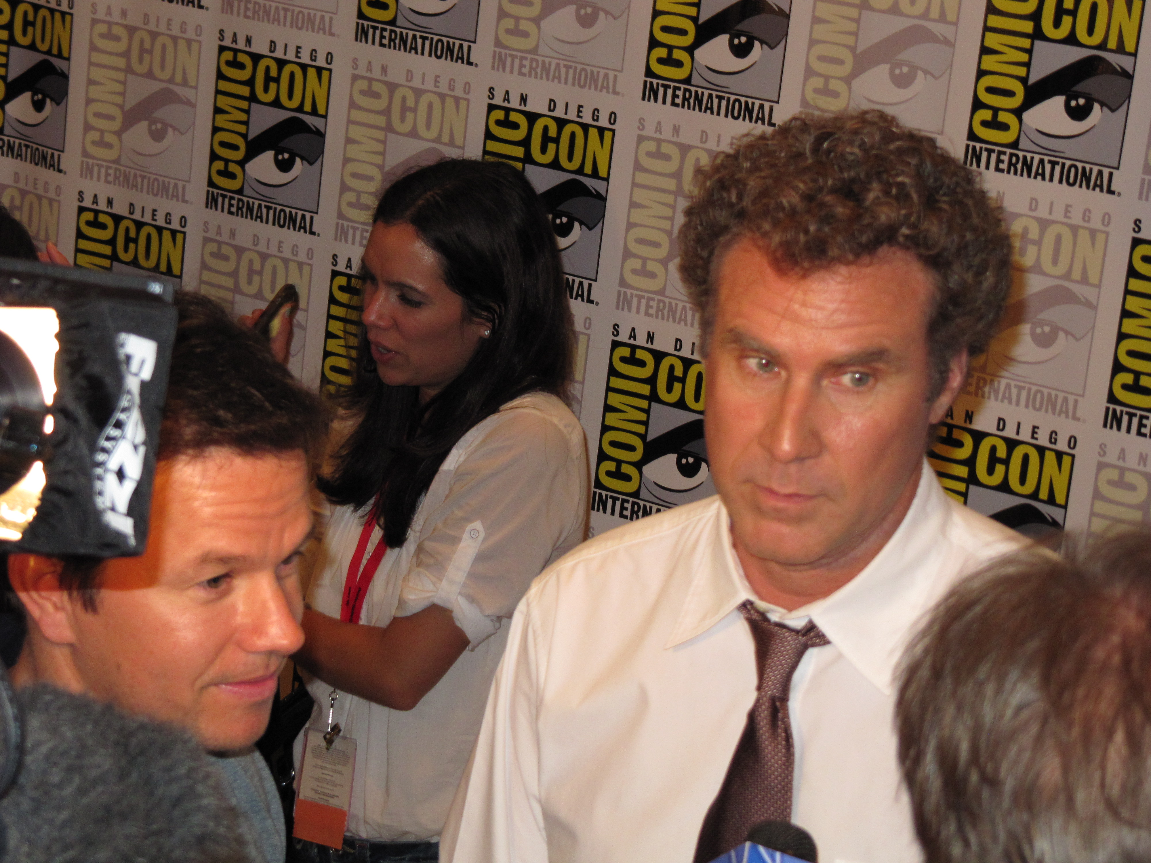 Mark Wahlberg and Will Ferrell in the Press Room, San Diego Comic Con 2010. Photograph by Patty Mooney, San Diego, California